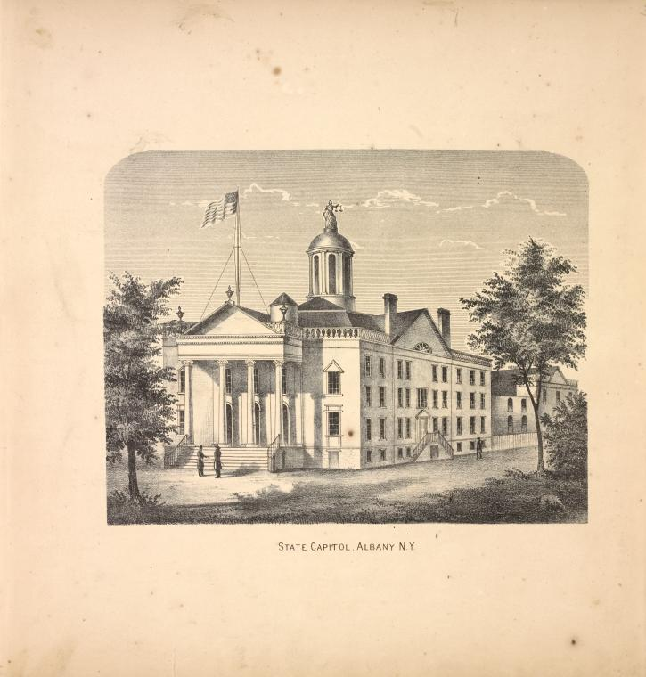 Engraving of the New York State Capitol in 1866